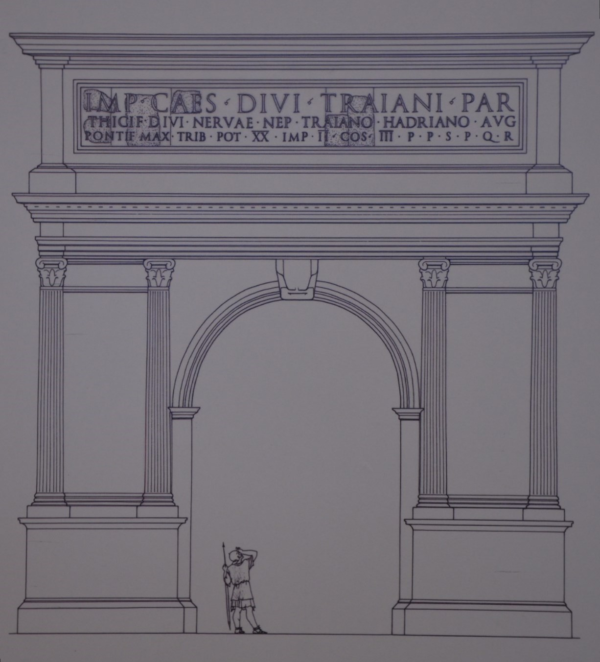 Reconstruction drawing of the triumphal arch dedicated to Hadrian near the camp of the Sixth Legion at Tel Shalem, Israel Museum, Jerusalem